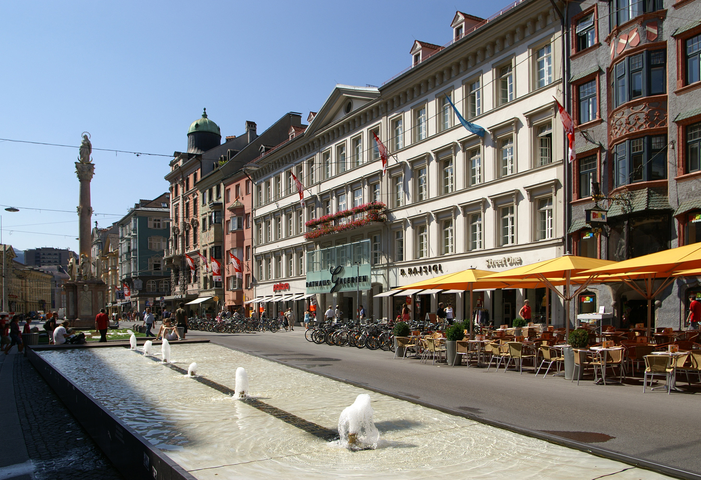 A part of Maria-Theresien-Straße in Innsbruck